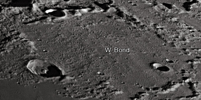 W. Bond lunar crater as seen from Earth with satellite craters labeled